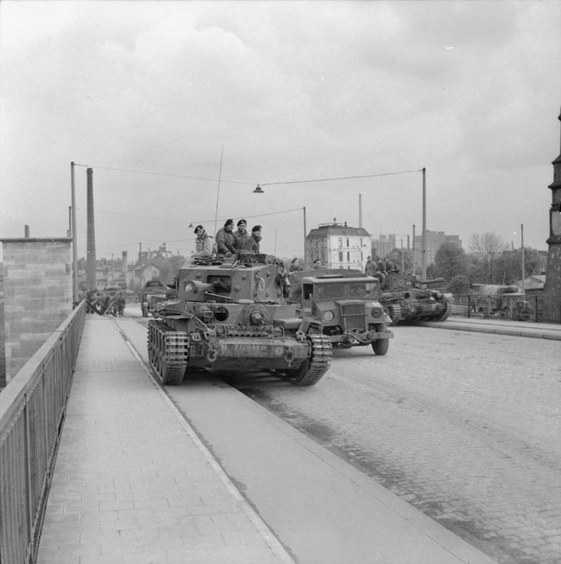 The British Army in North-west Europe 1944-45 Cromwell tanks of 7th Armoured Division in Hamburg, 3 May 1945.